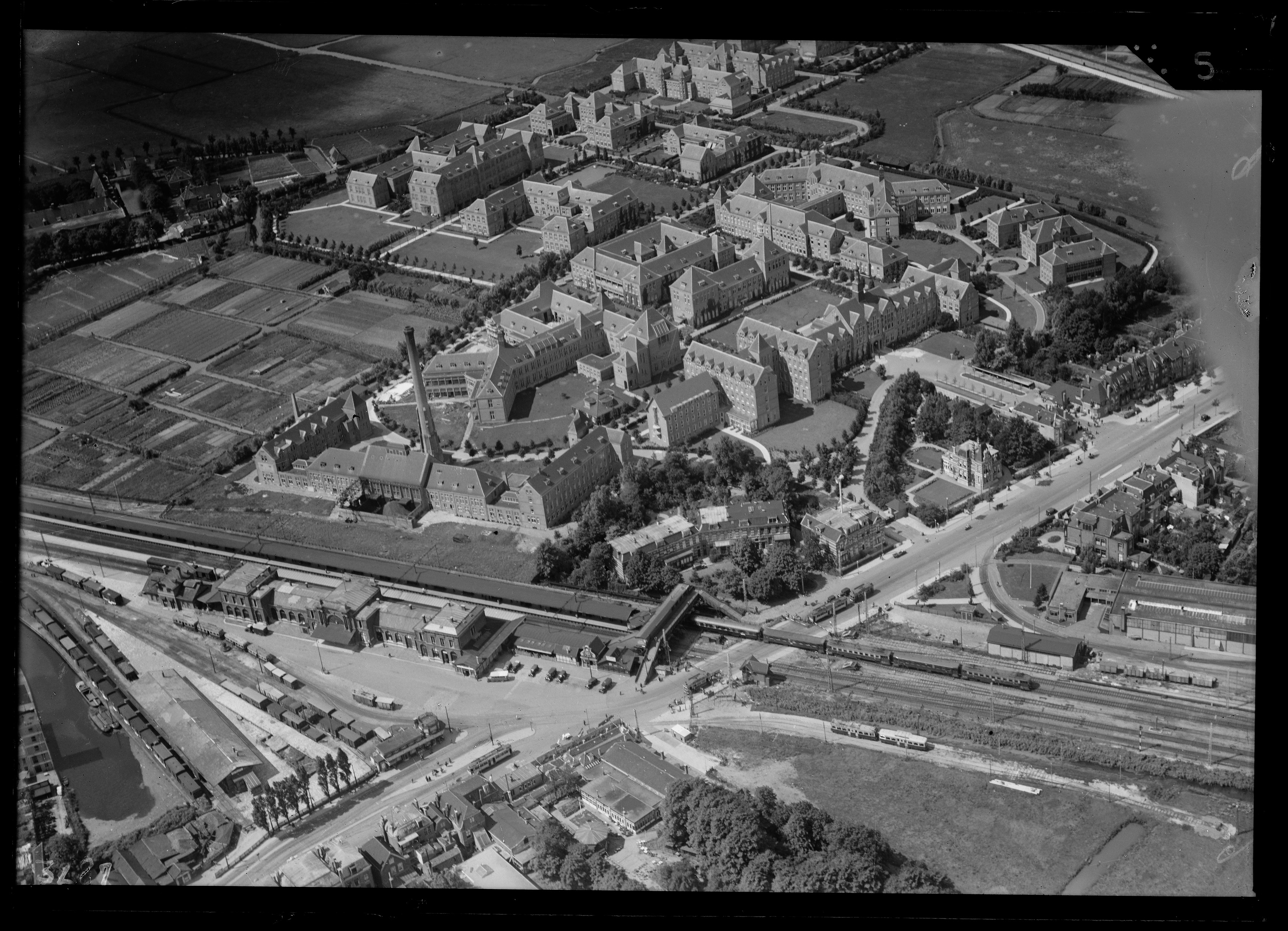 Aerial photograph of Leiden, The Netherlands